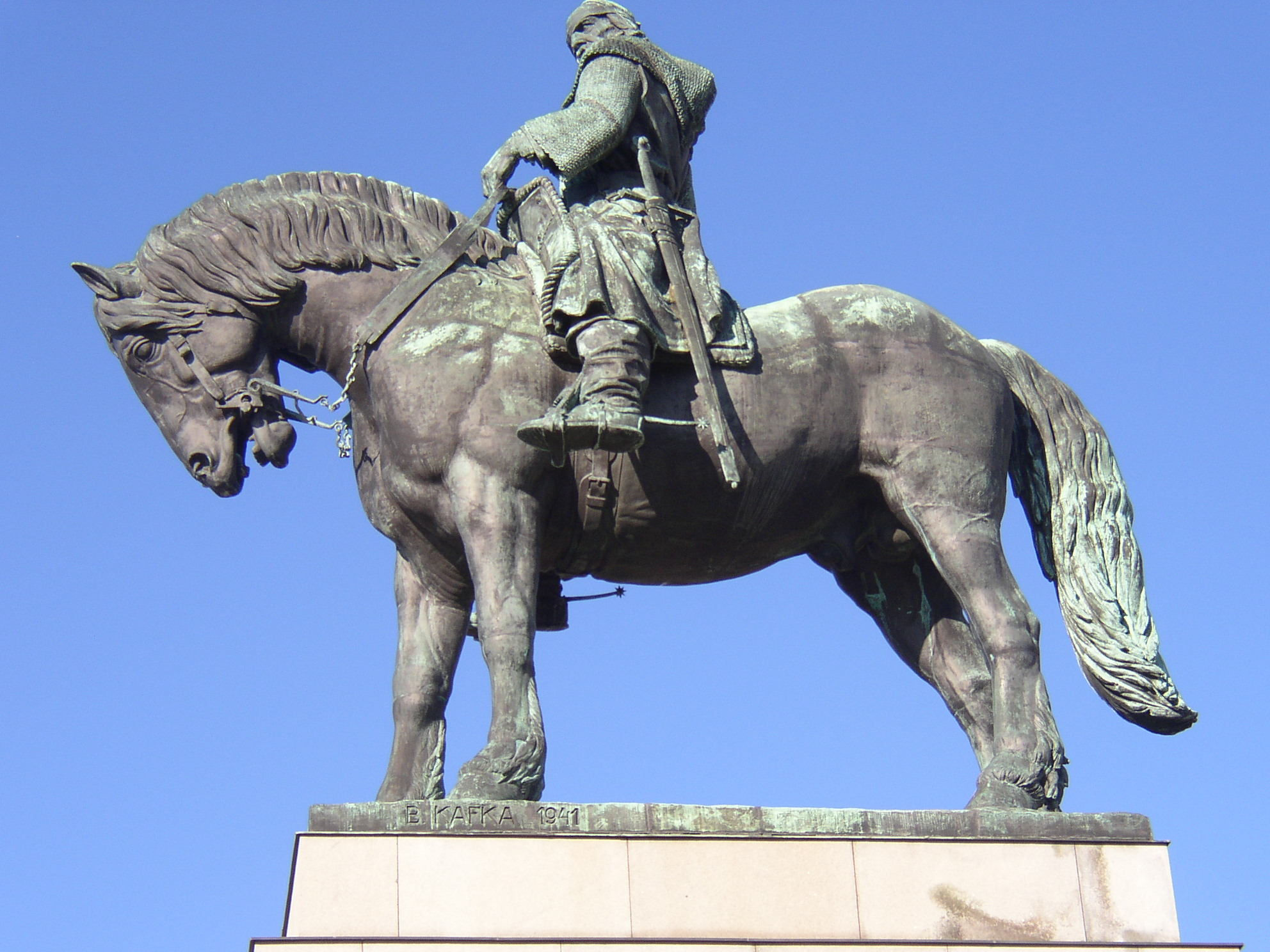 Equestrian statue of Jan Žižka by Bohumil Kafka at National Memorial on Vítkov Hill in Prague, Czech Republic.